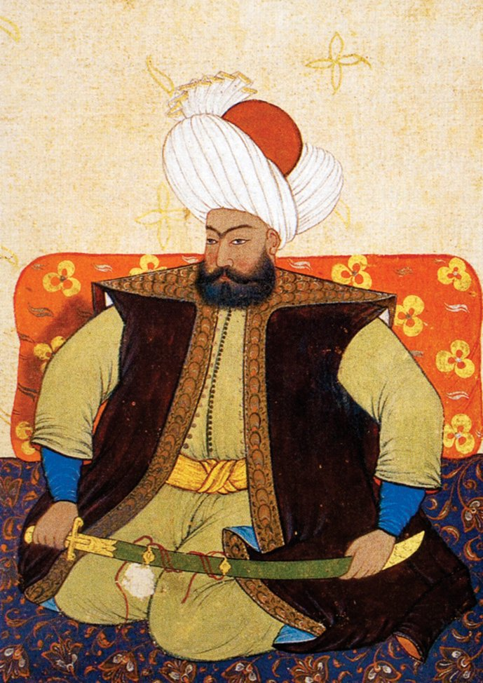 Ottoman Sultan Osman I. sitting on what seems to be a couch.